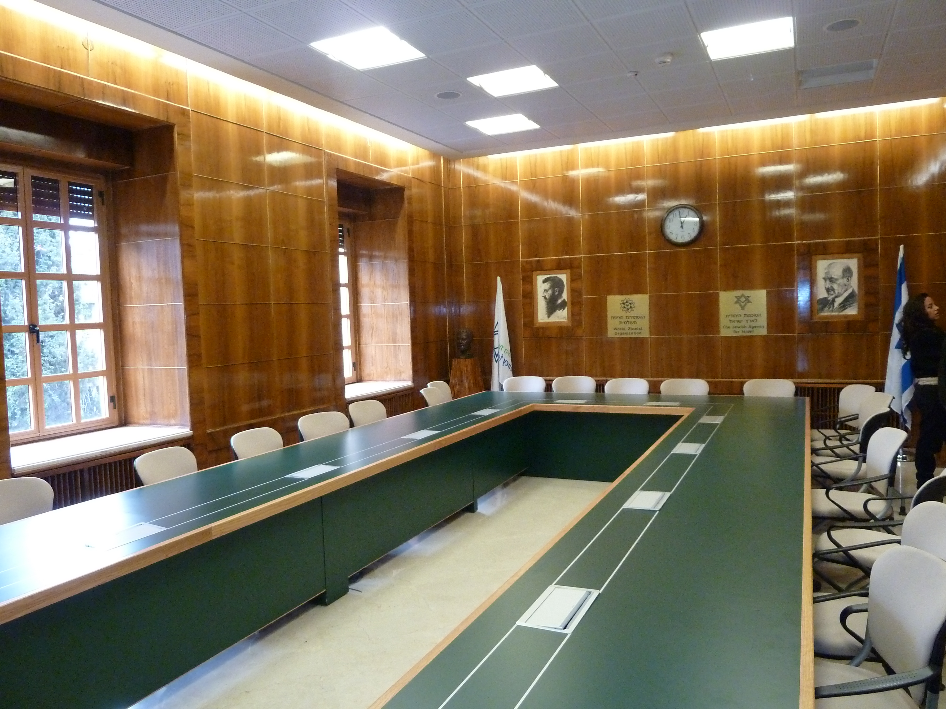 Binyan Hamosadot Haleumiyim (The National Institutions Building), Interior, the Government Room, Jerusalem